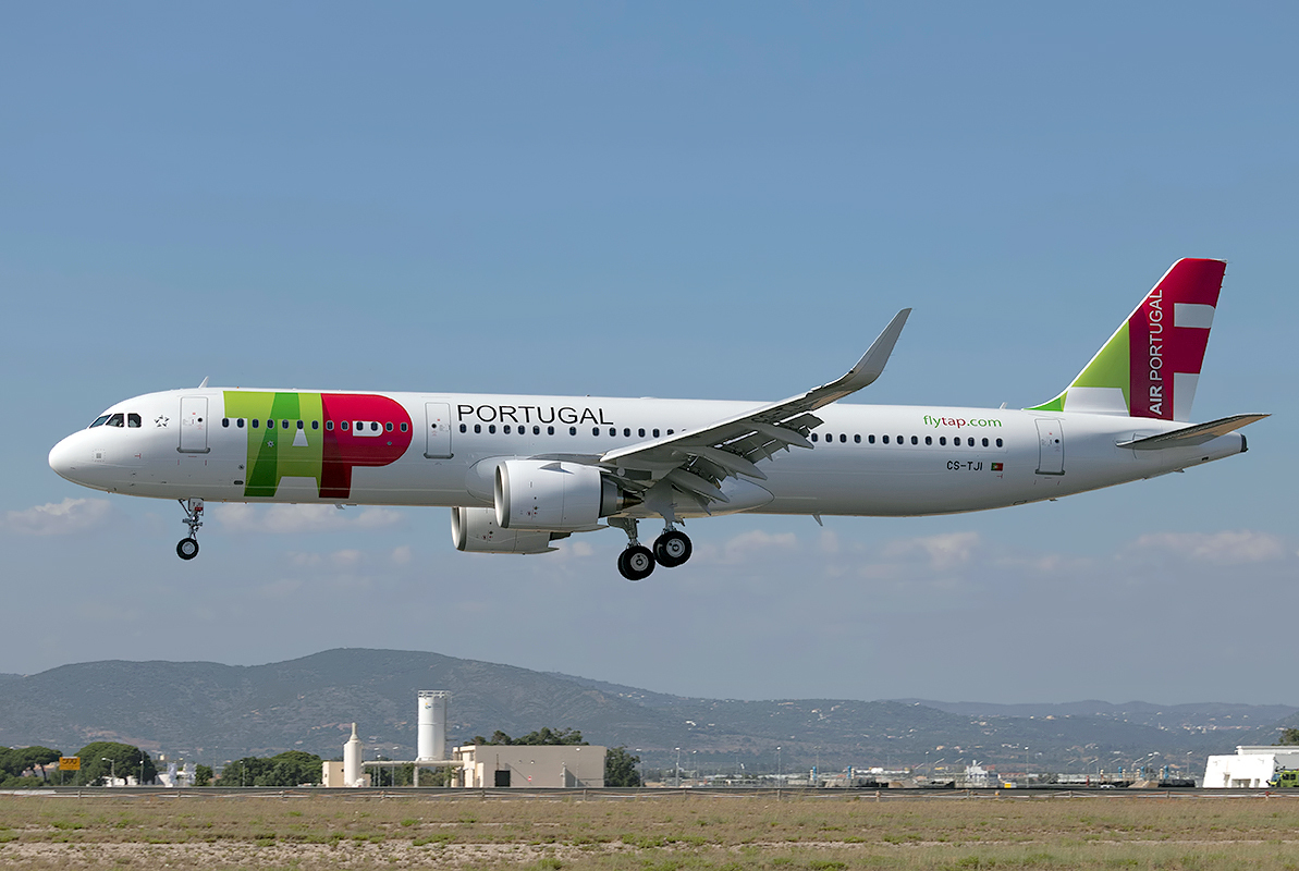 TAP Air Portugal Airbus A321-251N